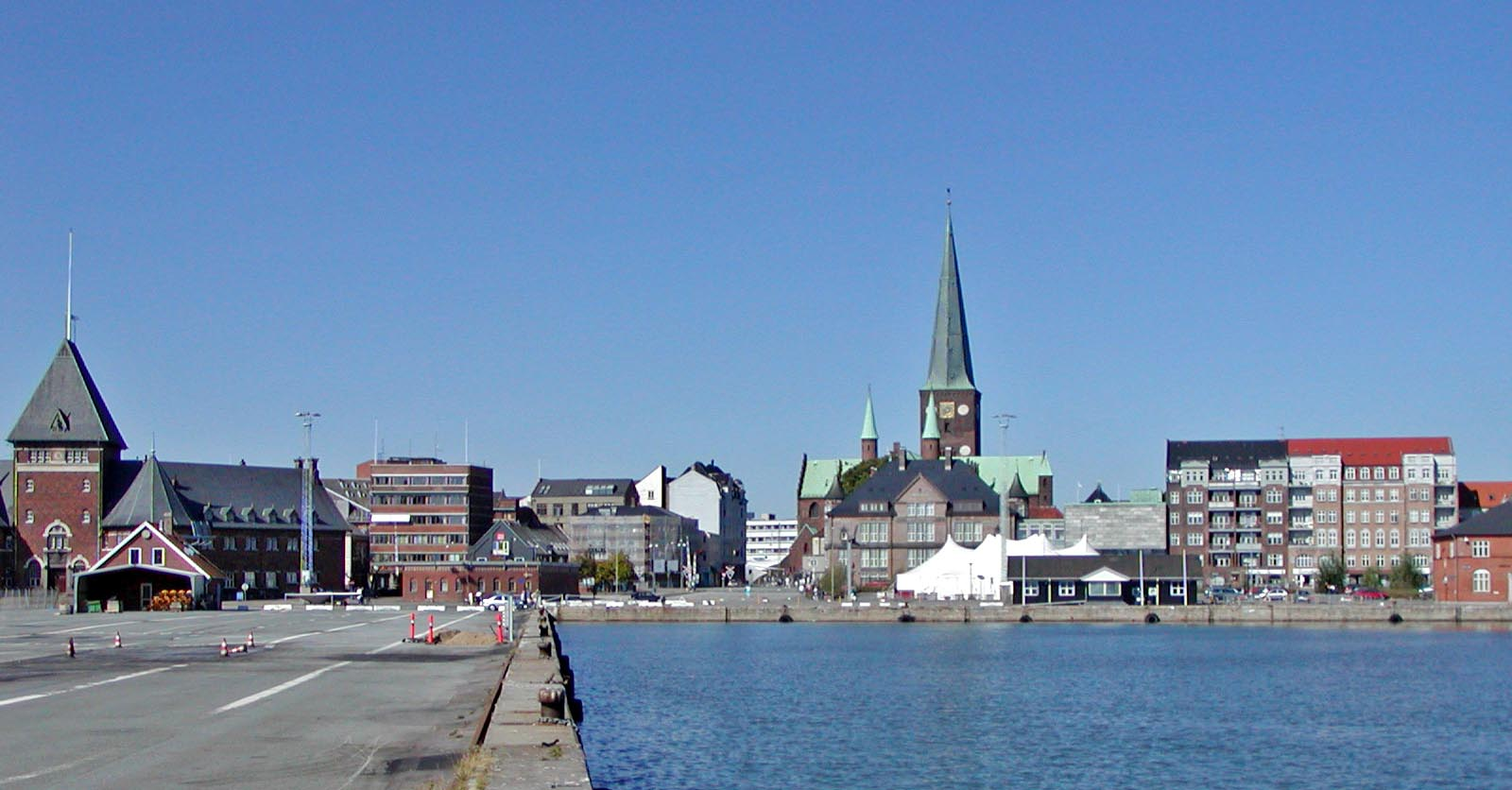 Photo of Aarhus Denmark waterfront